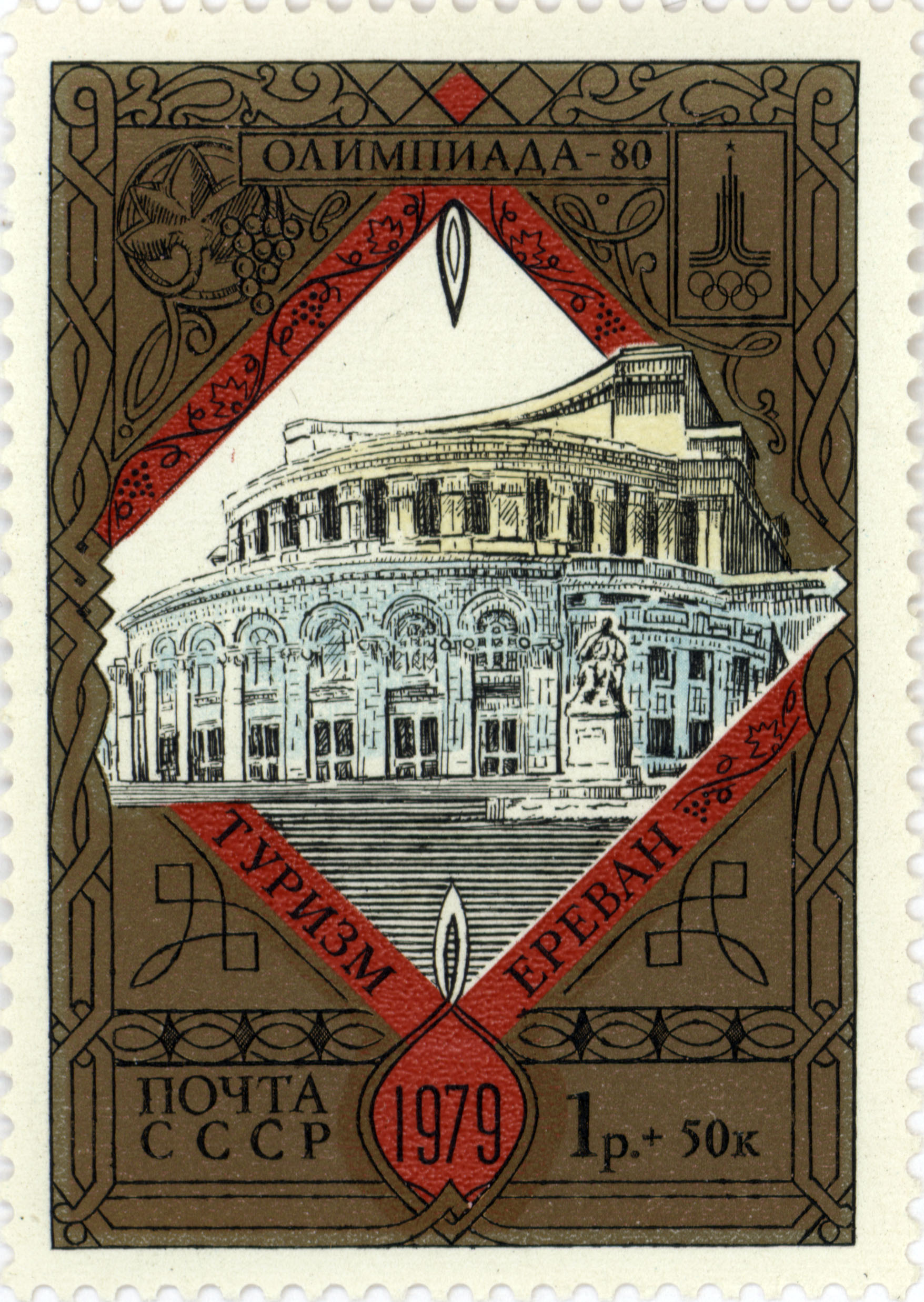 1979 USSR stamp. Erevan. Opera and balley theatre named after A. A. Spendiarov.